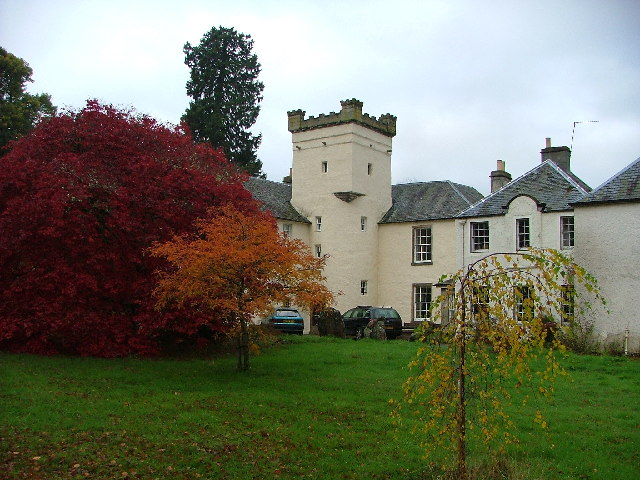 Moniack Castle Winery. Highland Wineries at Moniack Castle is a family enterprise. The friendly visitors centre offers tastings of country wines, liqueurs and preserves. Diana Gabaldon (author) fans should note - and visit!